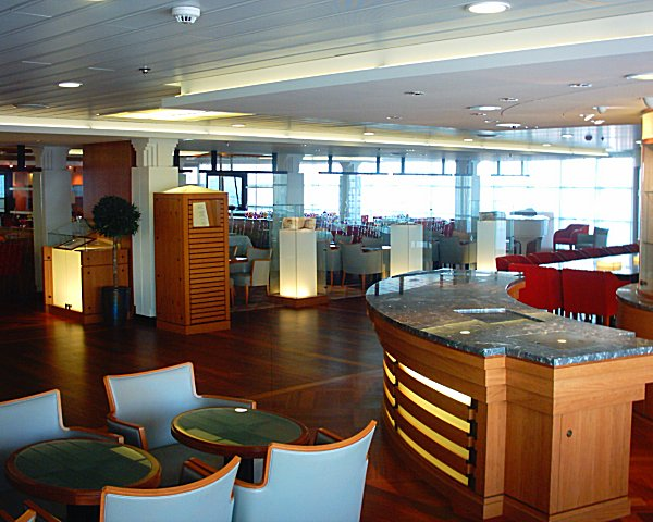 The Restaurant onboard MV Mont St Michel.